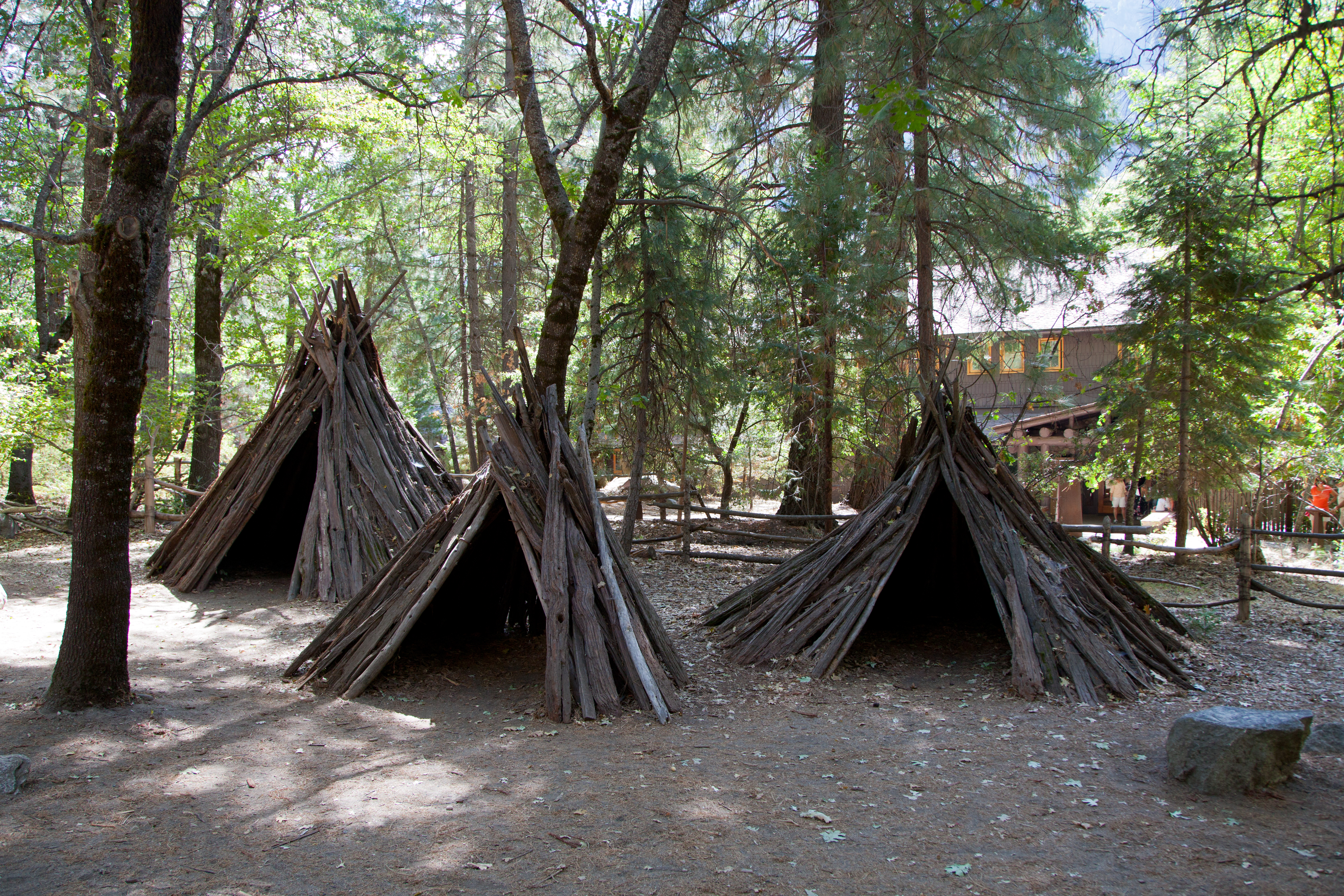 Traditional Miwok bark shelters, in the Yosemite Valley Native American village display. At the National Park Service visitor center in the Yosemite Village Historic District, Yosemite Valley, On the National Register of Historic Places in Yosemite National Park, California.